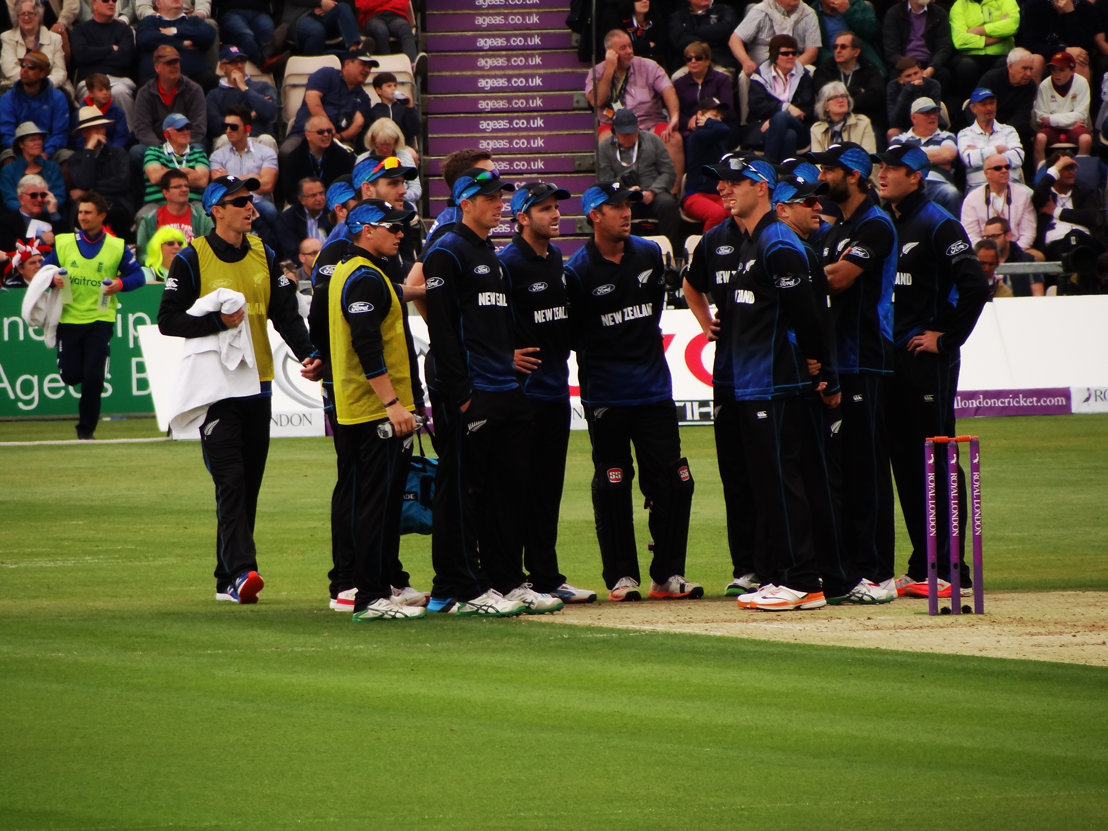 Third ODI between England and New Zealand in 2015